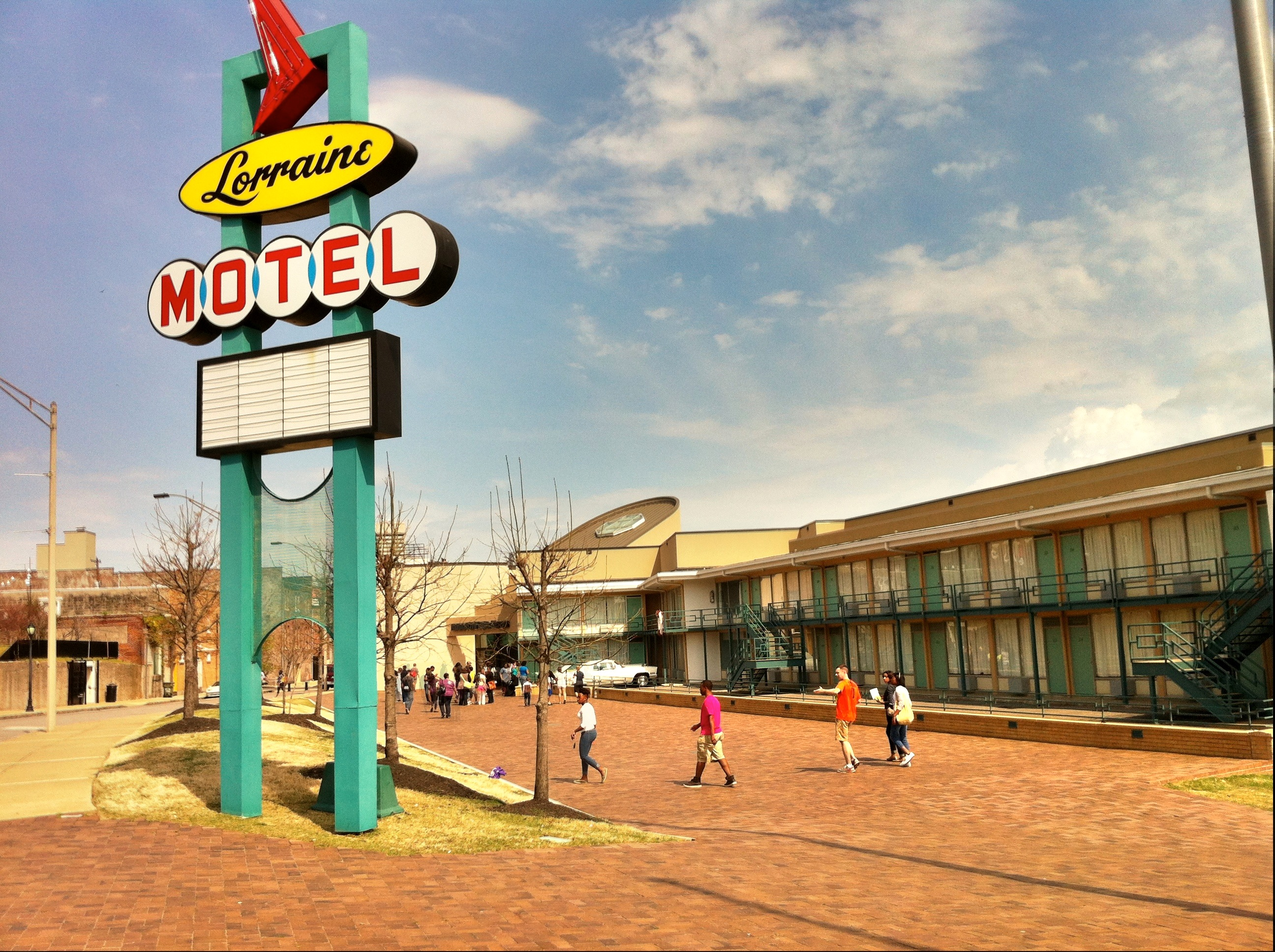 Wide view looking North of The Lorraine Motel, site of the Martin Luther King, Jr. assassination and the National Civil Rights Museum.